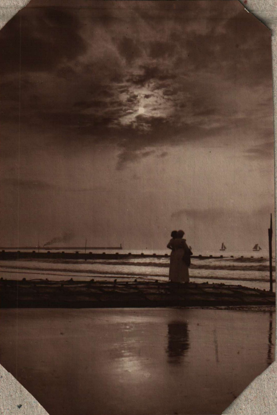 Postcard